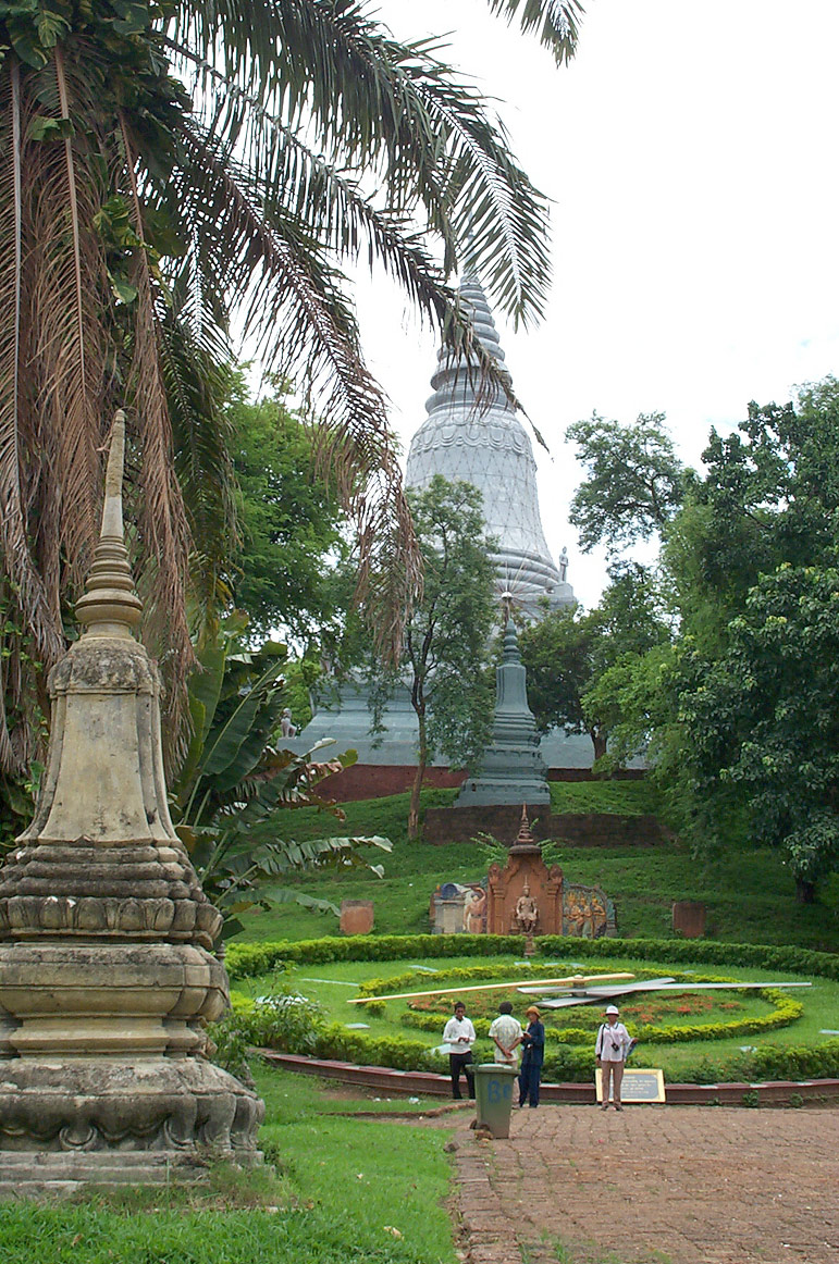 Chedi of Wat Phnom in Phnom Penh, Cambodia